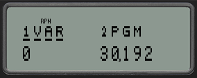 Checking used and available memory on the HP 35s calculator emulator